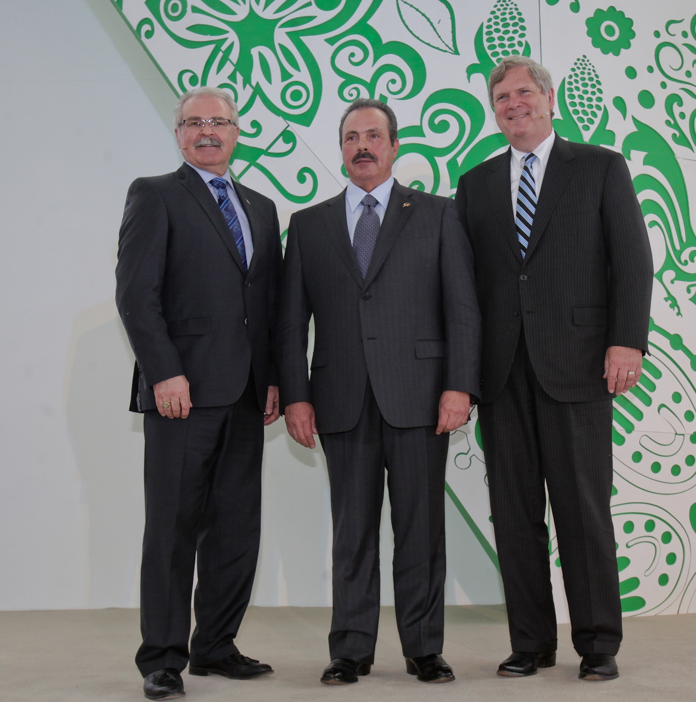 Tri-national Agricultural Leaders at the Secretary of Agriculture, Livestock, Rural Development, Fisheries and Food (SAGARPA) Global Forum on Agro Food Expectations held at the 2014 Mexican Global Forum on Agricultural Expectations in Mexico City, Mexico, on Monday, May 19, 2014. Photo by Juan Pablo Zamora SAGARPA. (L to R Canadian Minister of Agriculture Gerry Ritz, Mexico Secretary of Agriculture, Livestock, Rural Development, Fisheries and Food (SAGARPA) Martinez y Martinez, and Agriculture Secretary Tom Vilsack.